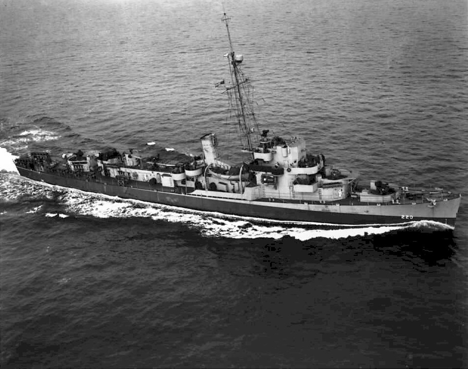 United States Navy destroyer escort USS Francis M. Robinson (DE-220) in the Atlantic Ocean on February 2, 1944.